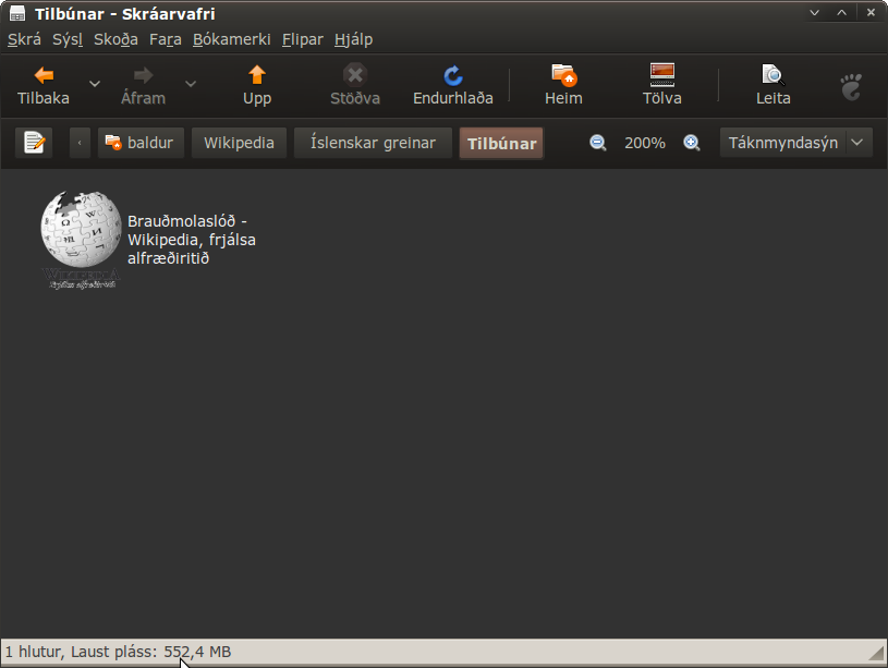 Breadcrumb navigation in an Icelandic translation of Nautilus